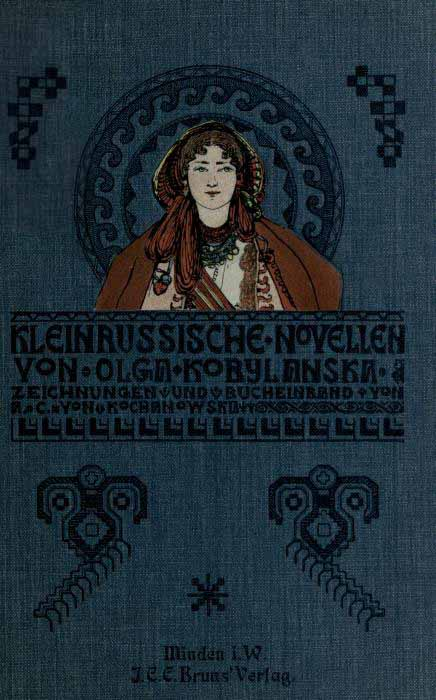 Kleinrussische Novellen. Minden. 1901